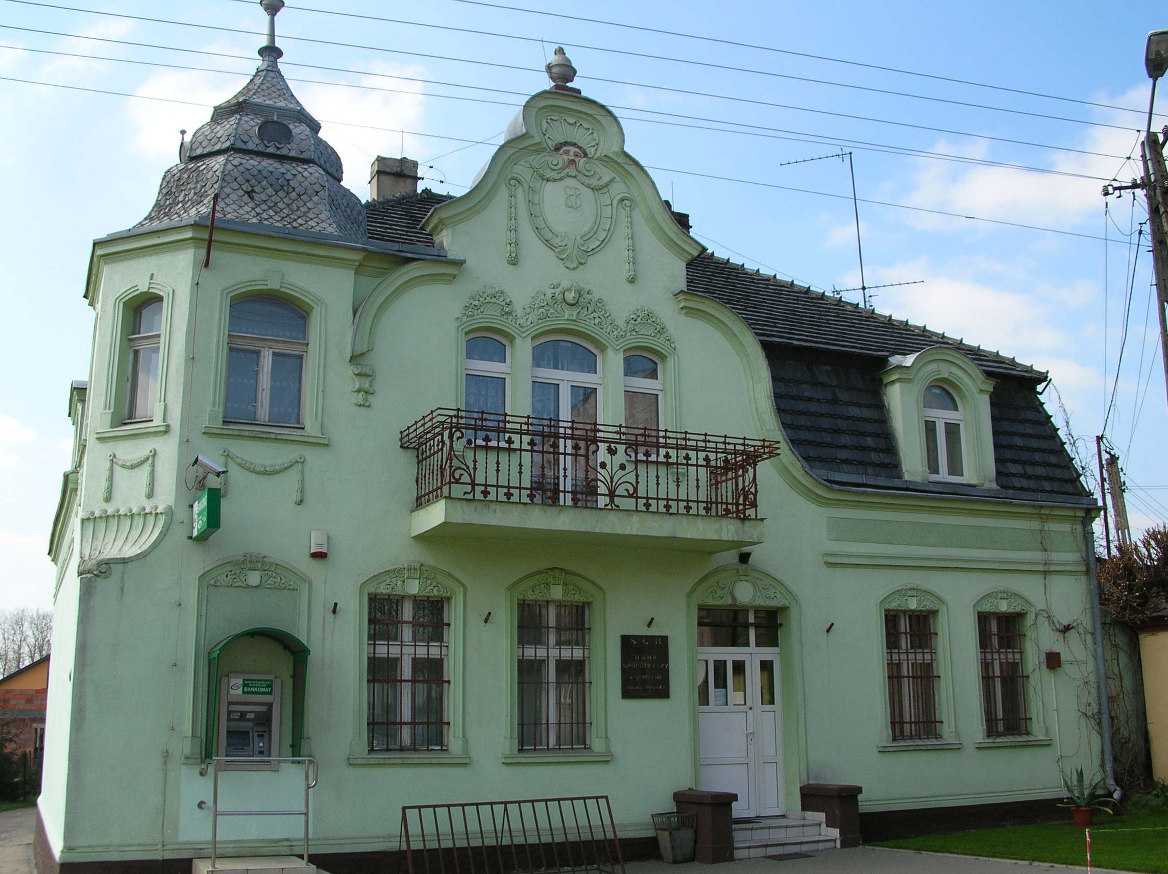 House in Rogowo.